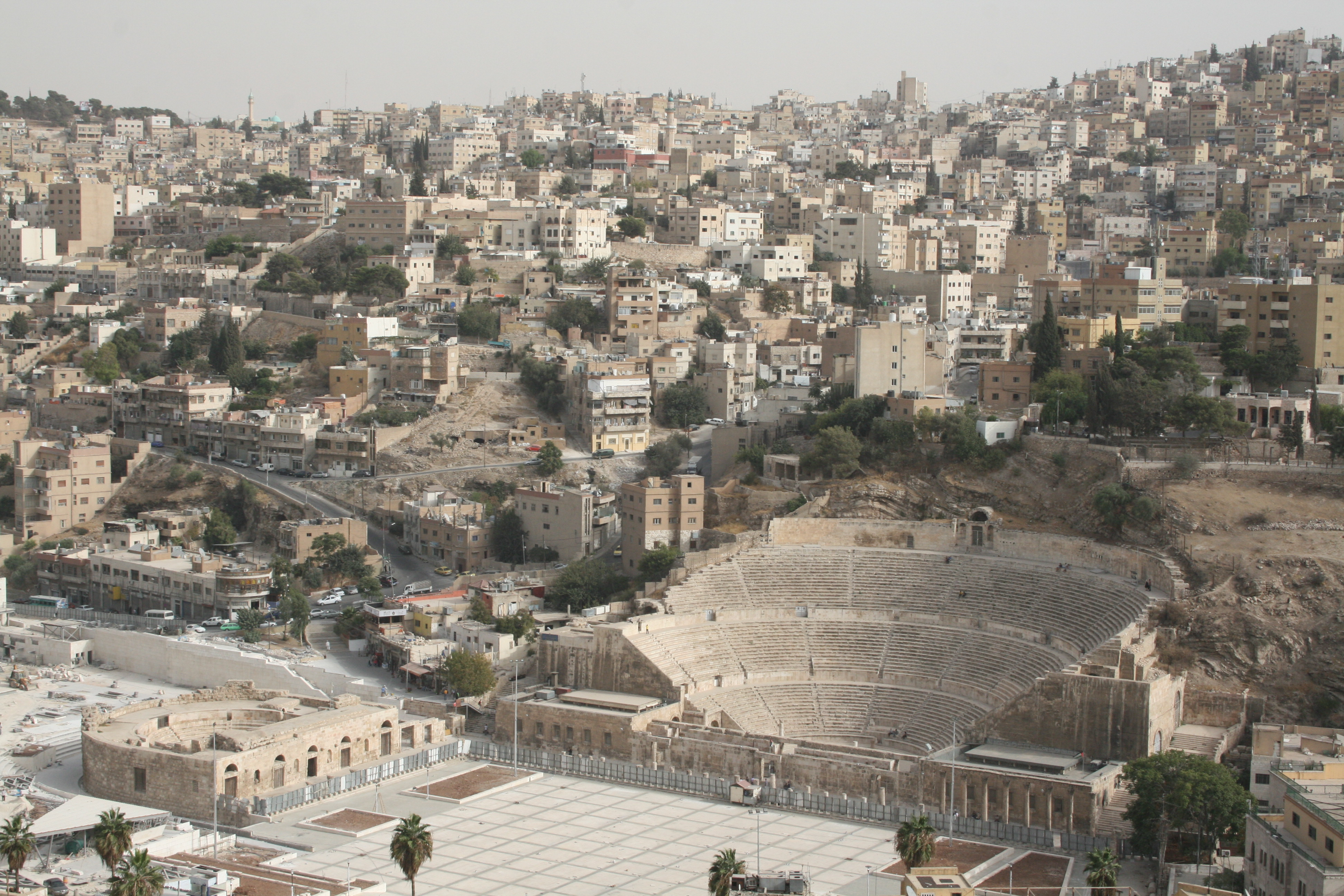 Roman theater in Amman, Jordan